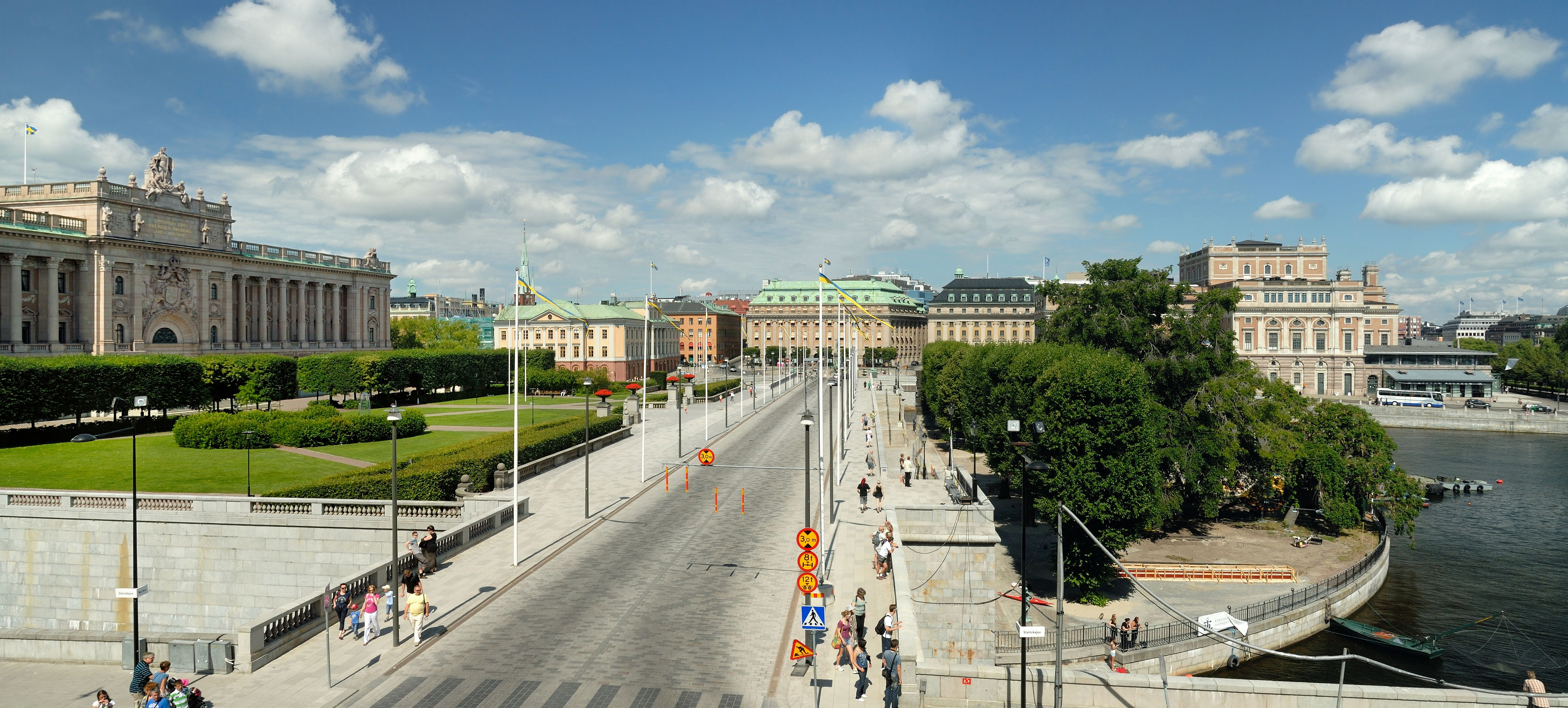 Riksdagshuset (Parliament House), Arvfurstens palats (The Hereditary Prince's Palace) and Kungliga Operan (Royal Swedish Opera), Stockholm, Sweden